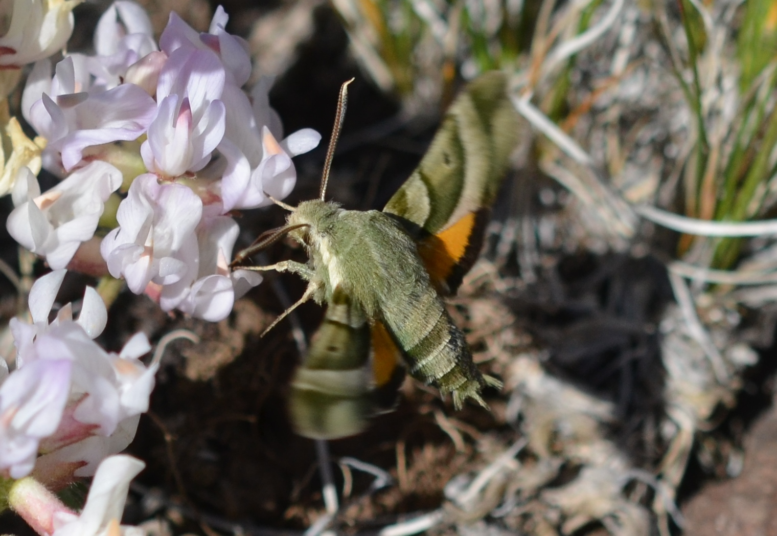 Oregon - Steens Mountain July 1, 2014